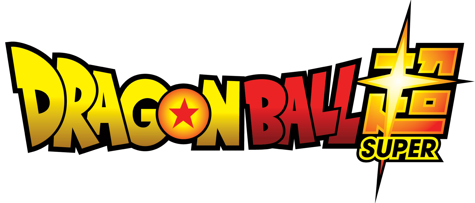 Dragon Ball Super logo